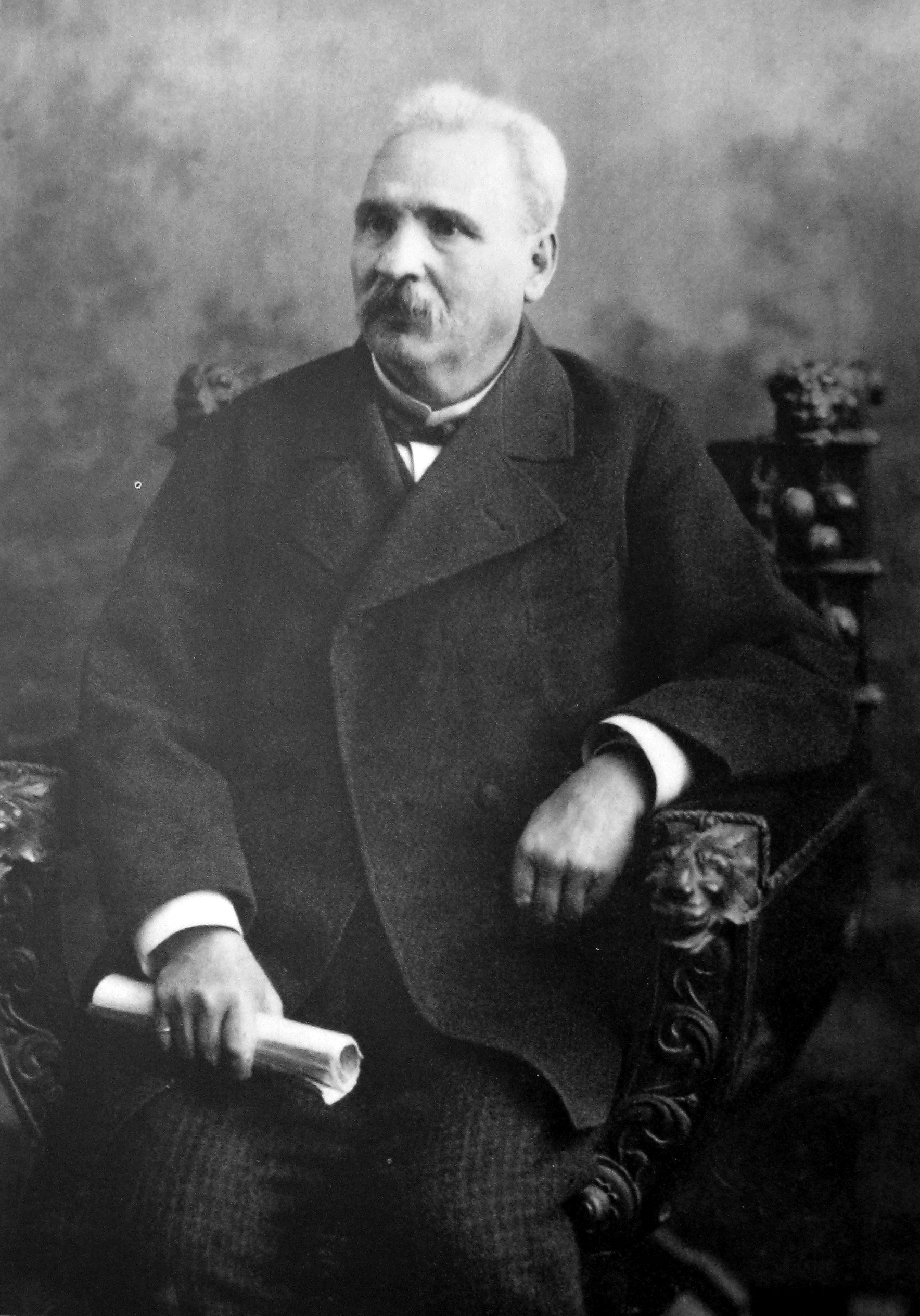 Petko Slawejkow; bulgarian writer and politician; (1827-1895)